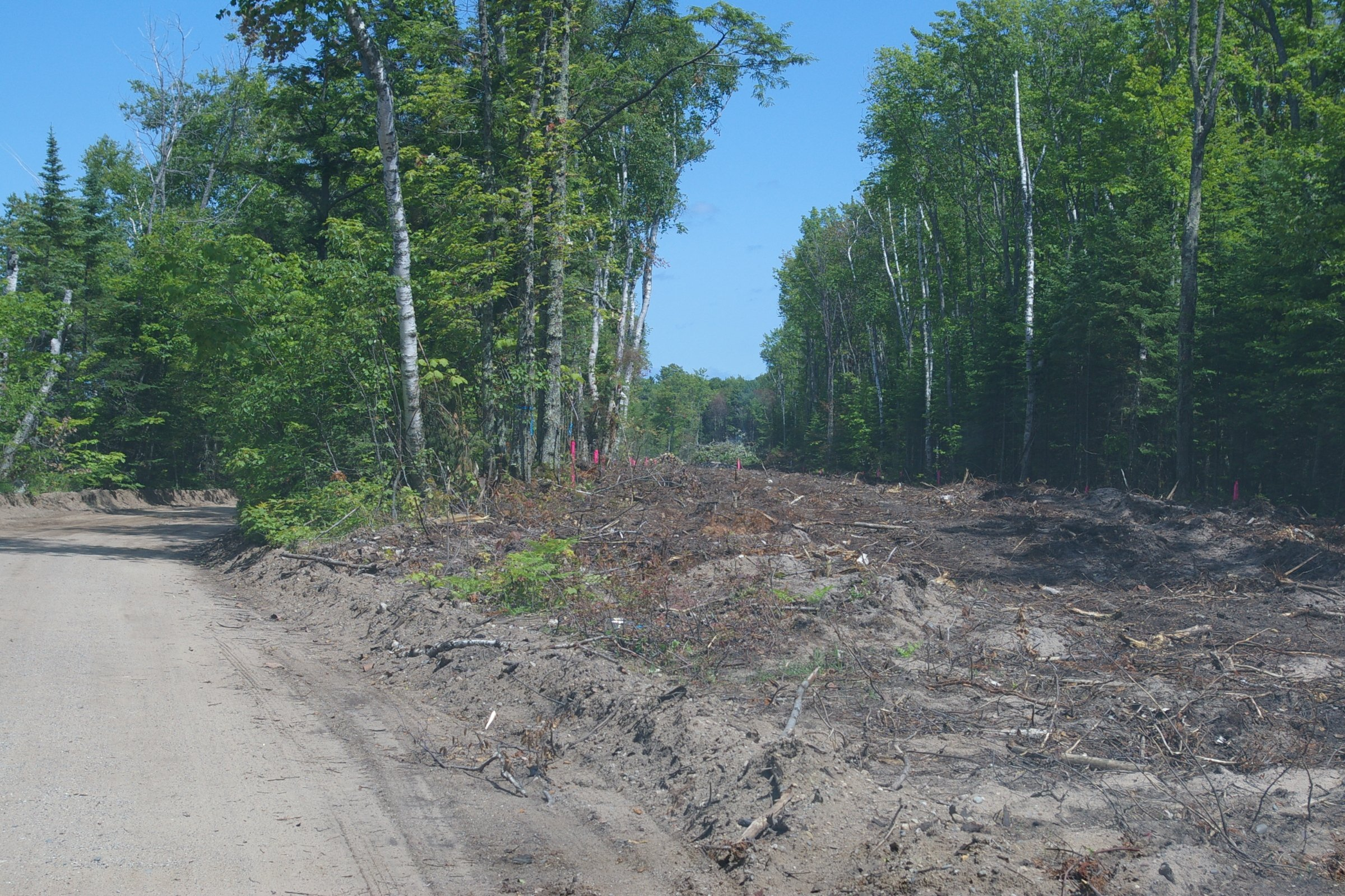 Clearing the forest during the paving project on H-58 during the summer of 2009 near Hurricane River Campground in Alger County, Michigan, United States